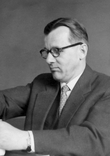 Photographer Erkki Niemelä, April 1957 (c) Pekka V. Virtanen